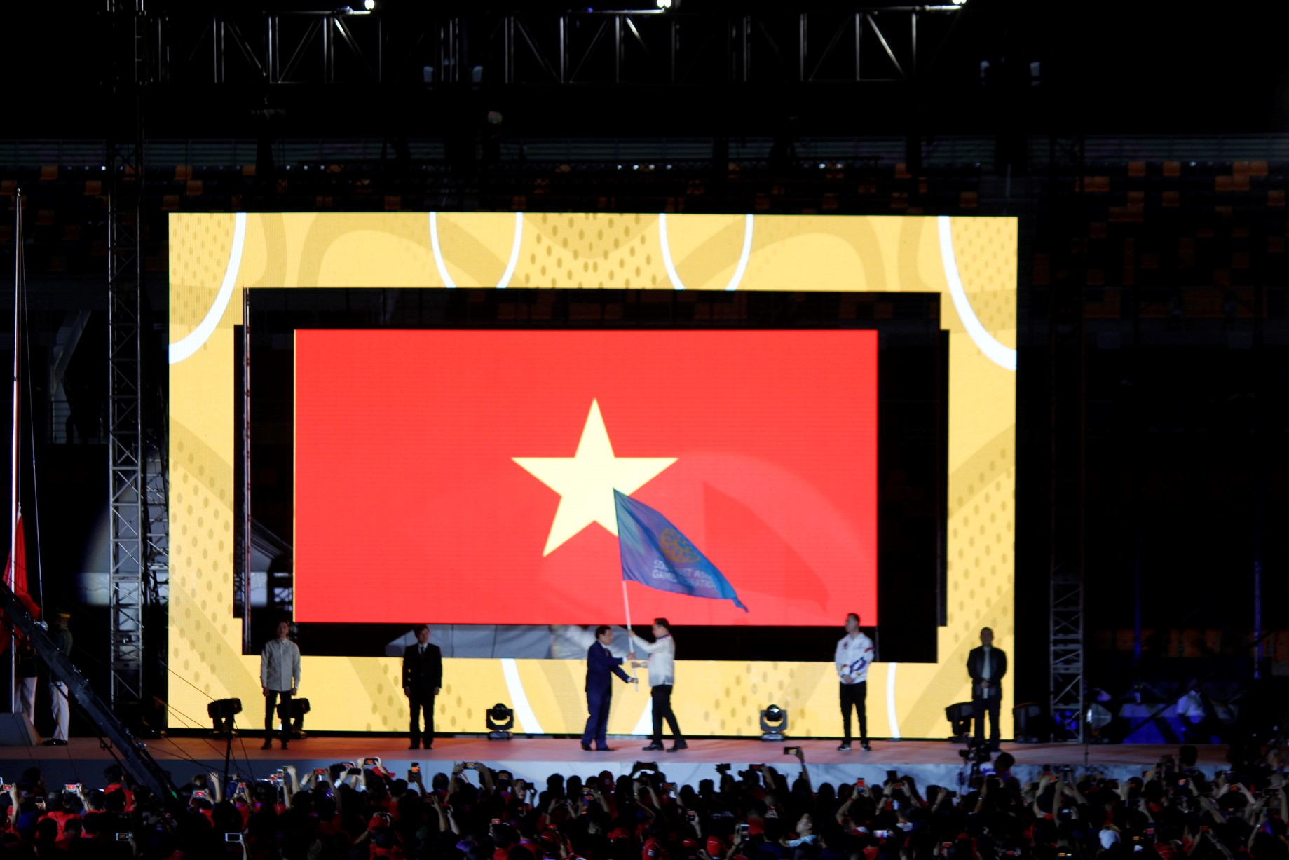 Philippine Olympic Committee President Abraham “Bambol” Tolentino (with flag) leads the turnover of the SEA Games Federation flag to Vietnam, the host of the 31st edition in 2021. (Gabriela Liana S. Barela/PIA 3)